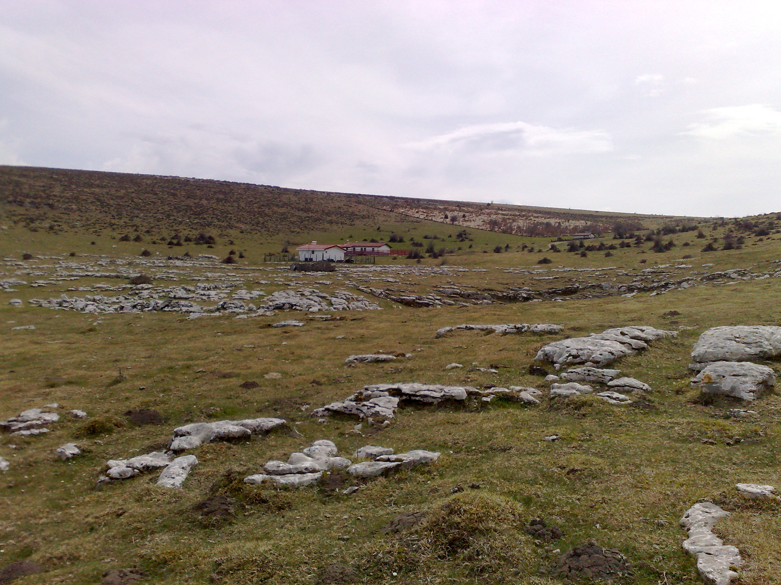 Menerdiga is a mountain pass in Gorobel mountain area, Aiaraldea, Araba, Basque Country. Near the place there are some sheperd's shacks.